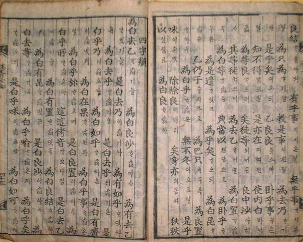 Page from the yu seo pil ji (유서필지, 儒胥必知), a book first published in 1872 which provides a detailed guide to the idu writing system. PD due to age. From [1]